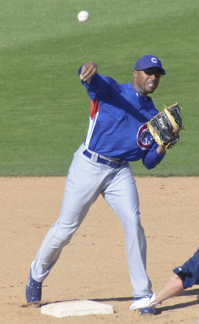 Bobby Scales